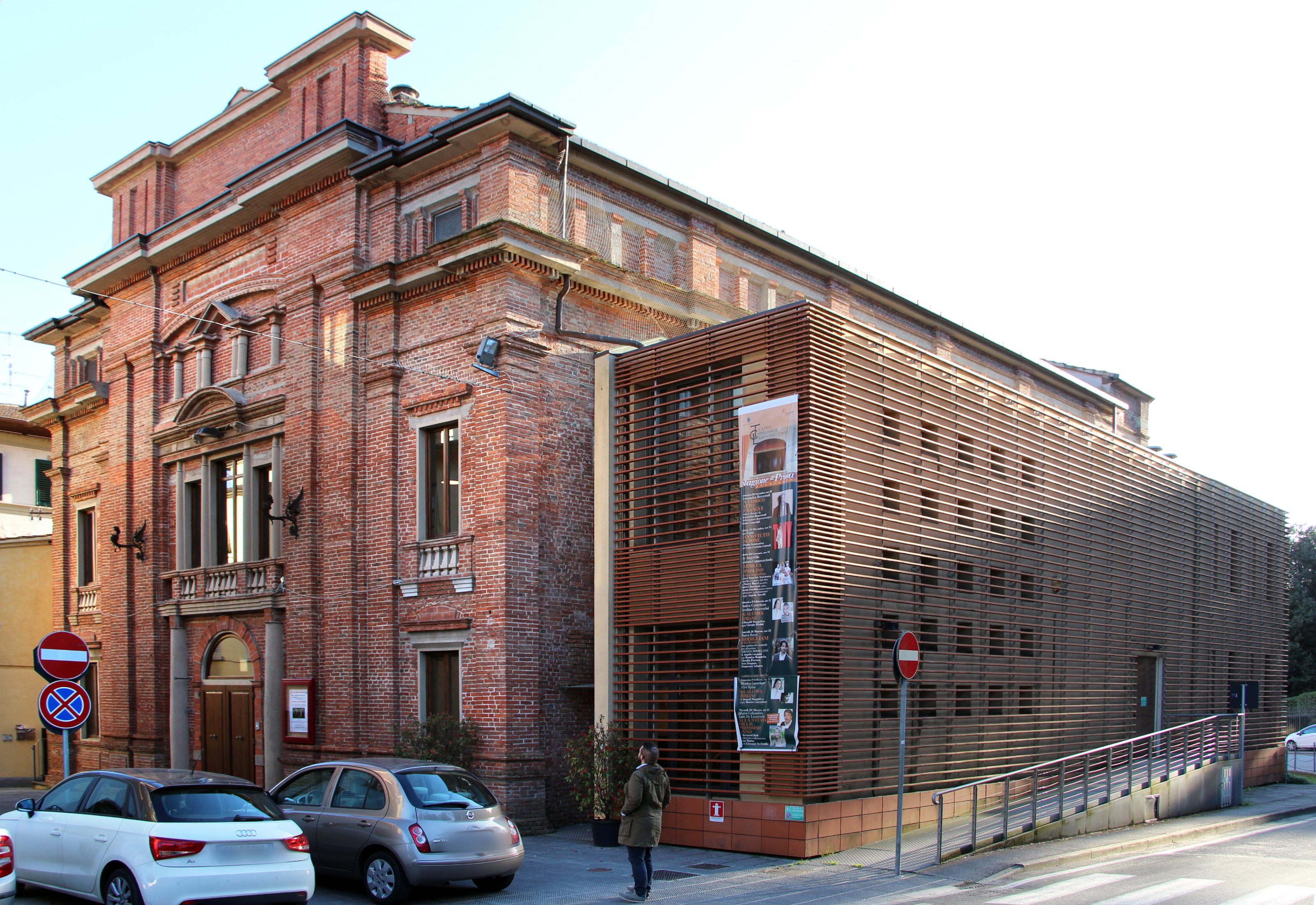 Lamporecchio